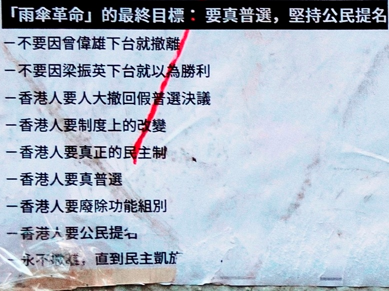 Umbrella Revolution